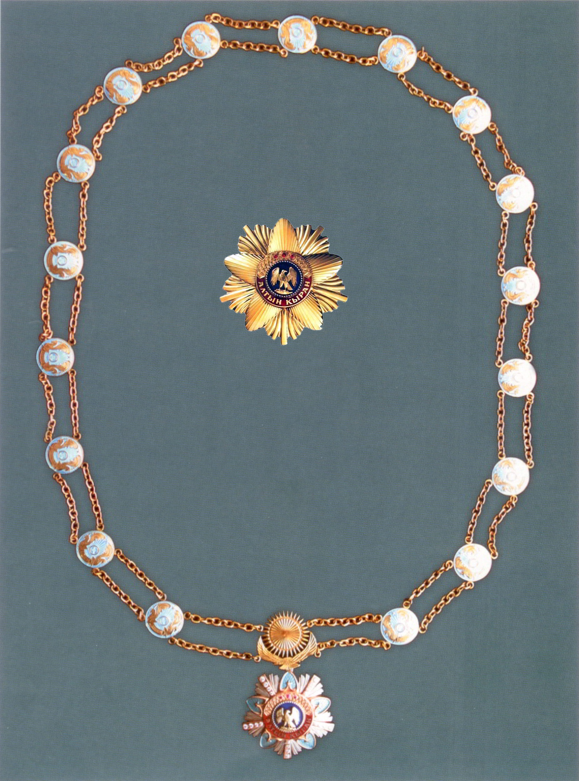 Award of "Gold eagle" ("Алтын қыран") - the maximum award of Republic Kazakhstan. A sign and star on an award.